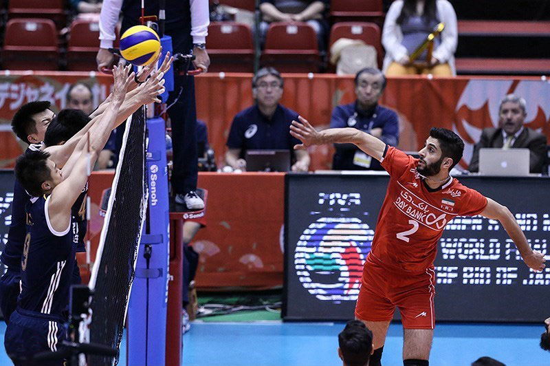 Iran men's national volleyball team VS China men's national volleyball team at the Men’s World Olympic Qualification Tournament in Tokyo, Japan. Iran defeated China.